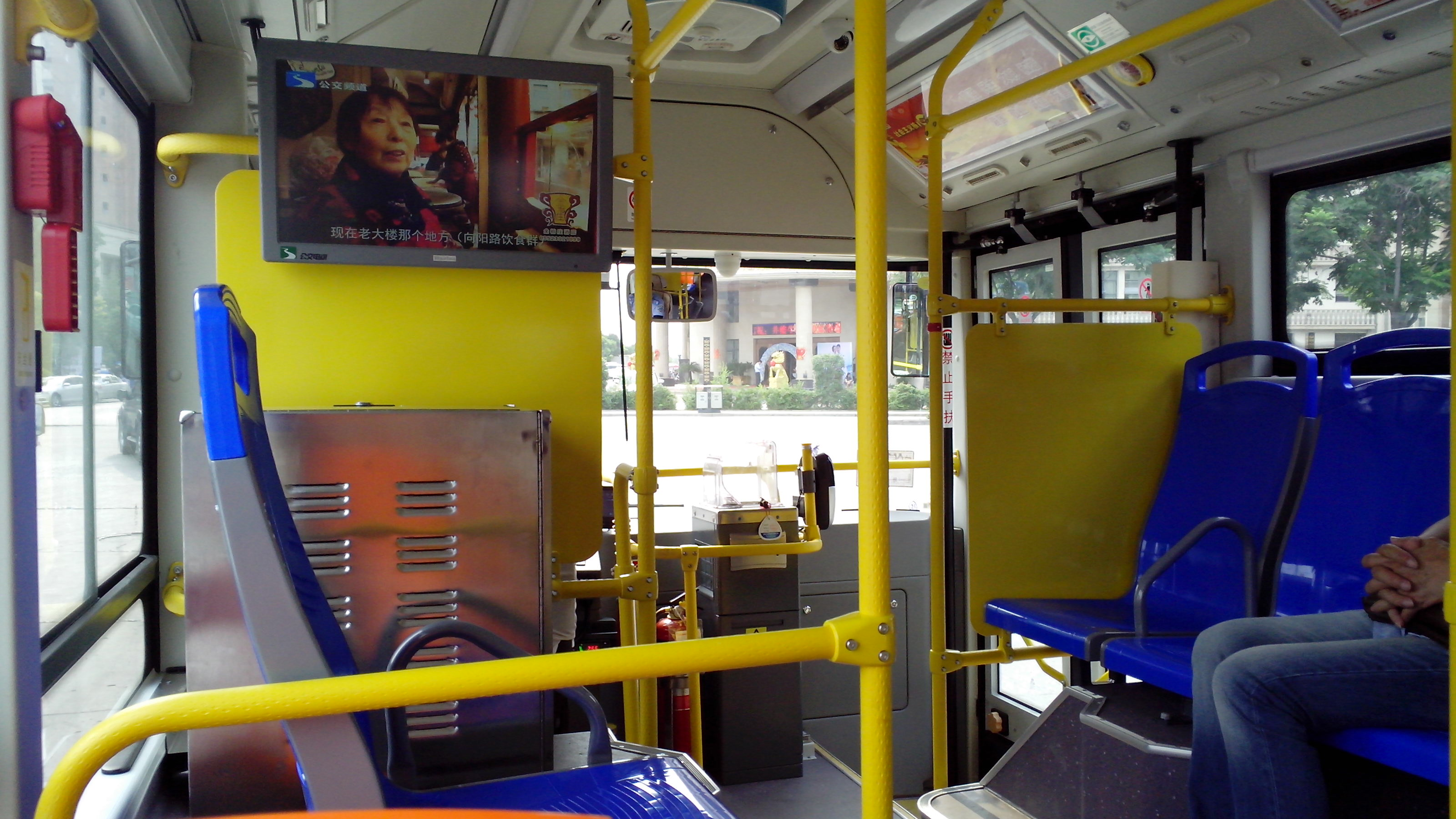 中文（中国大陆）: Bengbu Bus No.110 with BYD K8 Interior